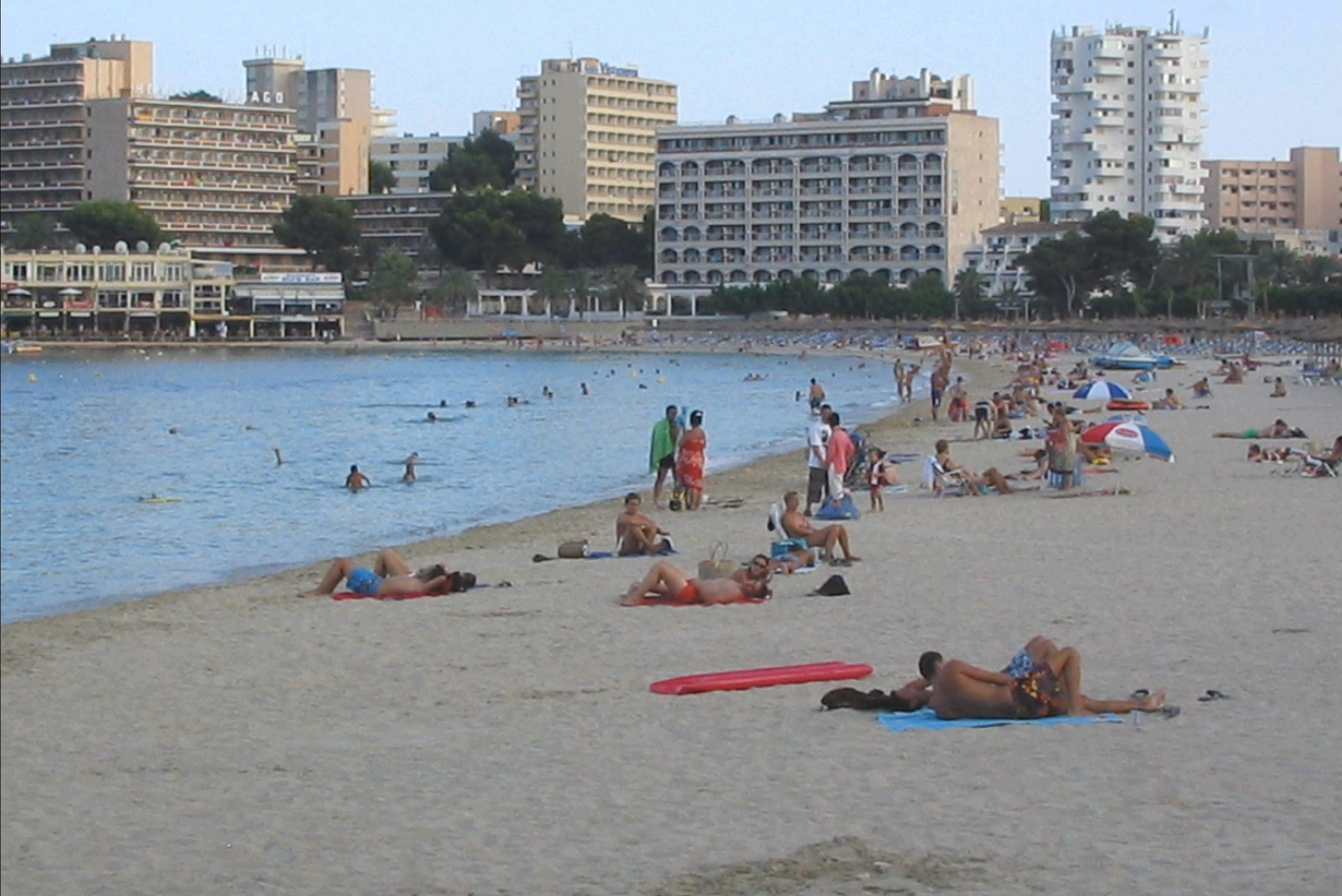 This is playa son matias in Calvià, Mallorca.